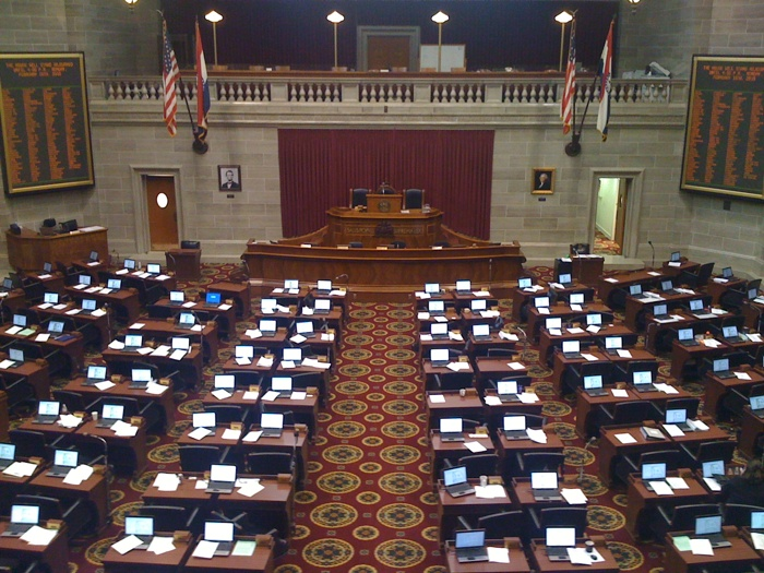 House of Representatives Chambers, Missouri State Capitol, Jefferson City, Missouri, United States.